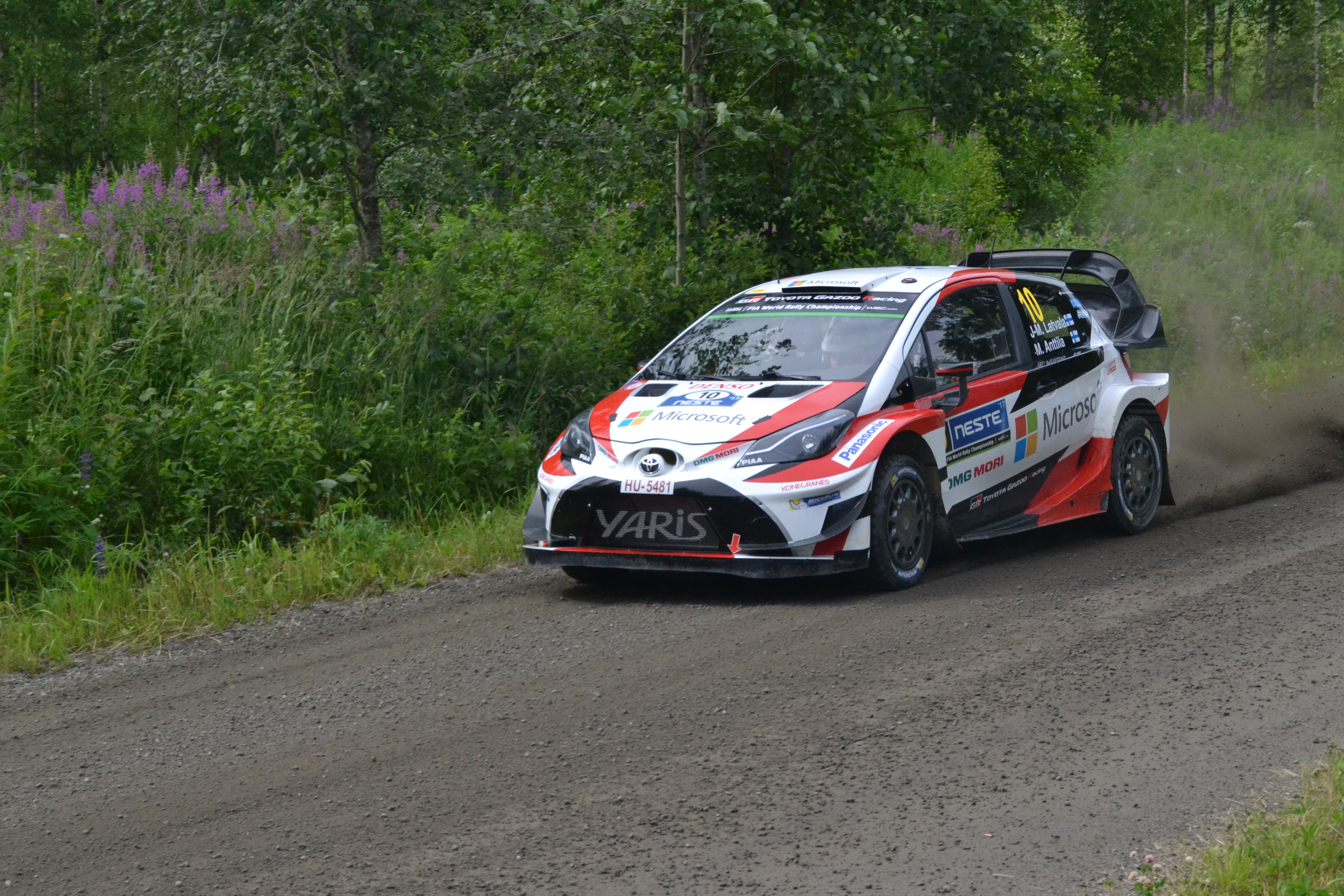 Jari-Matti Latvala at second Saalahti stage at Rally Finland 2017